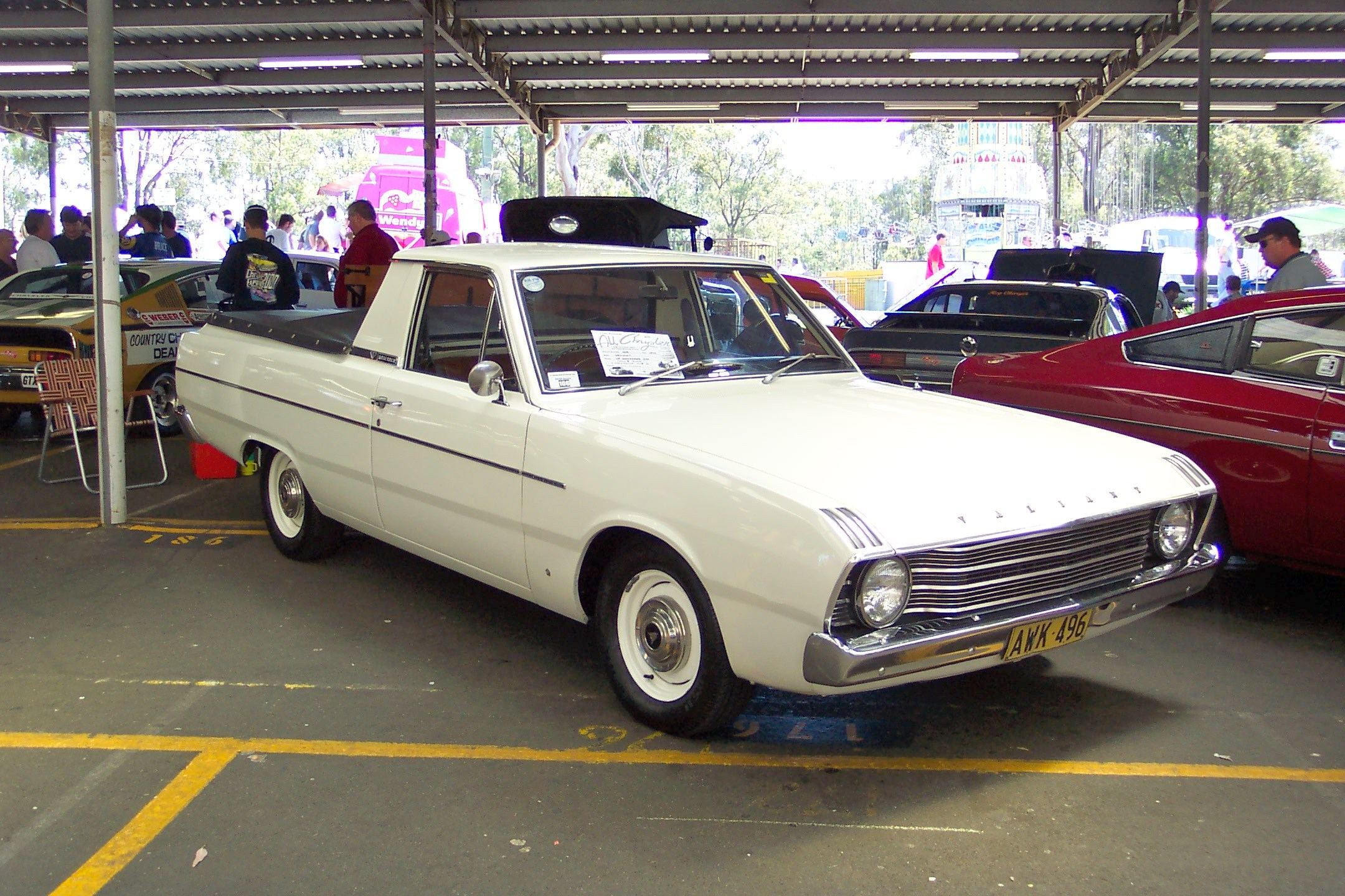 1970 Chrysler VF Valiant Wayfarer ute. Taken at the 2003 New South Wales All Chrysler Day, held at Fairfield Showground, Prairiewood, Sydney.